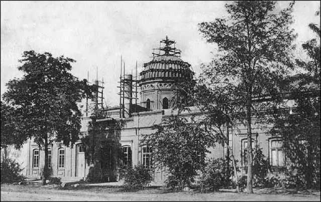 Shrine of Bab in Ashgabat